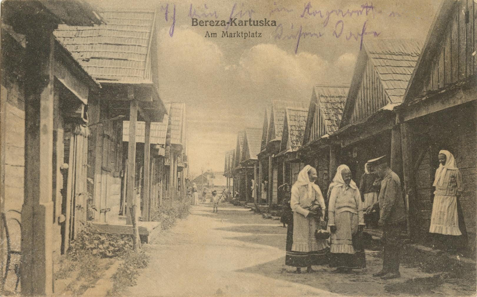 Biaroza in 1916